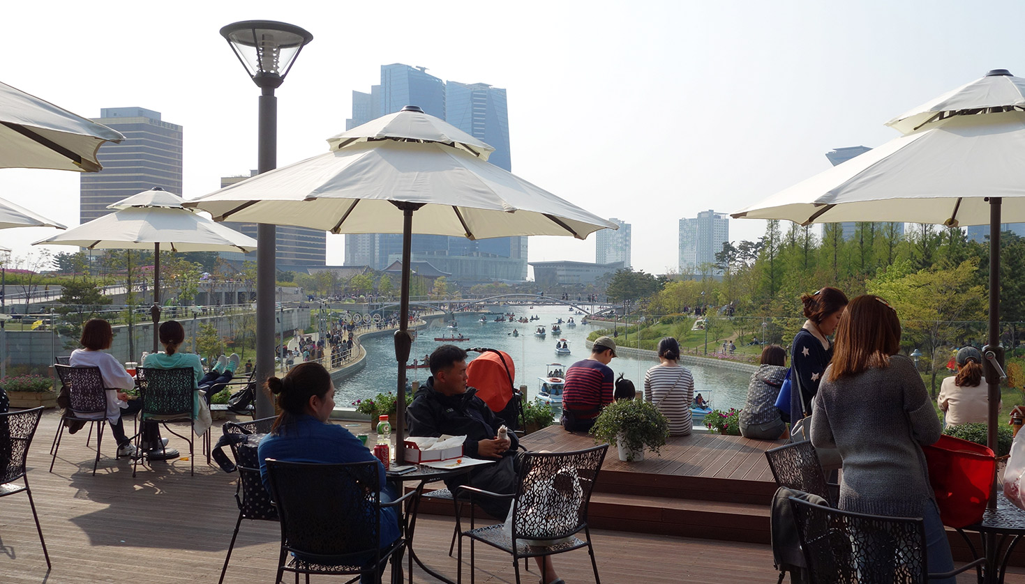 The east-side patio and a view of Central Park lake, Songdo IBD, Incheon, Korea